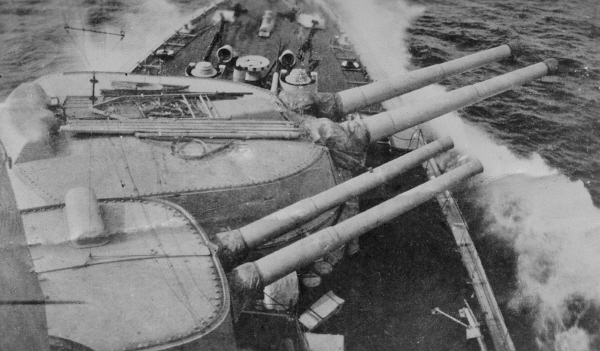 Guns on the Swedish coastal defence ship HMS Gustav V.